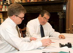 Supreme Court justice Antonin Scalia with co-author Bryan Garner. Collection of the Supreme Court of the United States, image number 9397-001. Credit Collection of the Supreme Court of the United States, Steve Petteway photographer.